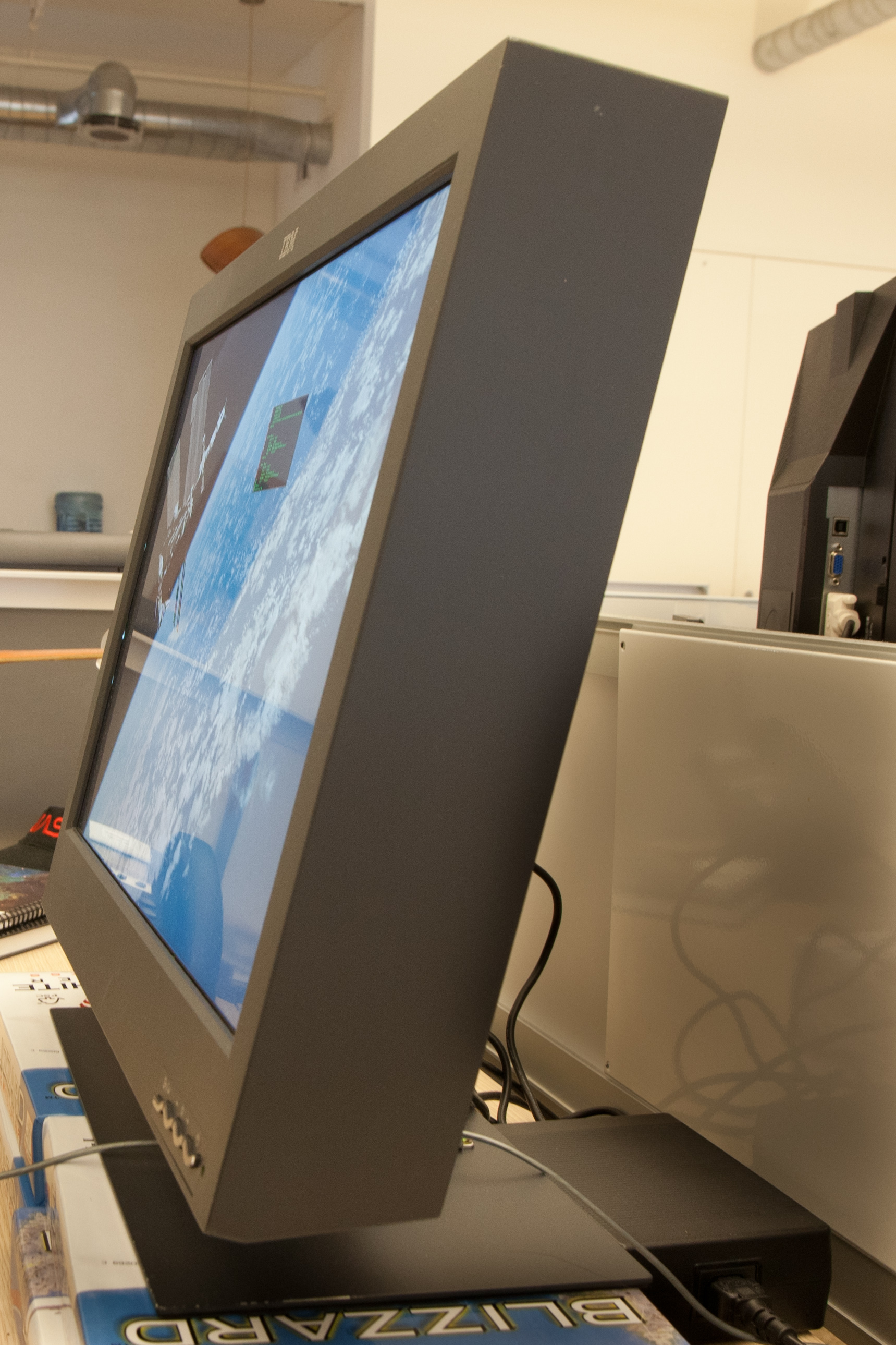 The IBM T221 WQUXGA (3840x2400) monitor is much thicker than a standard flat panel.